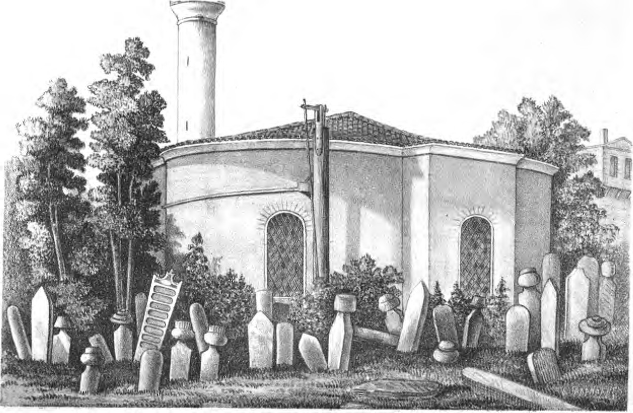 The Balaban Ağa Mescidi, converted from an unidentified Byzantine church, located near the Bayezid II Mosque in Istanbul, Turkey. From G. Paspates' Byzantinai meletai topographikai (1877) Author: Paspatēs, Alexandros Geōrgiou, 1814-1891. [from old catalog] Subject: Inscriptions, Greek Year: 1877 Possible copyright status: NOT_IN_COPYRIGHT Language: English Digitizing sponsor: Google Book contributor: Oxford University Collection: europeanlibraries